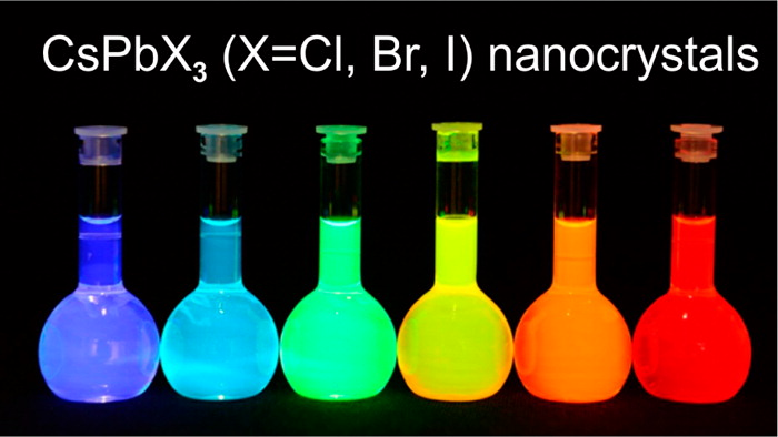 Photoluminescent cesium lead-halide perovskite nanocrystals (Nano Lett. 2015, 15, 6, 3692-3696. The image was reproduced here with permission from the American Chemical Society (CC BY 4.0). For further permission related to this excerpted image, please contact the American Chemical Society at